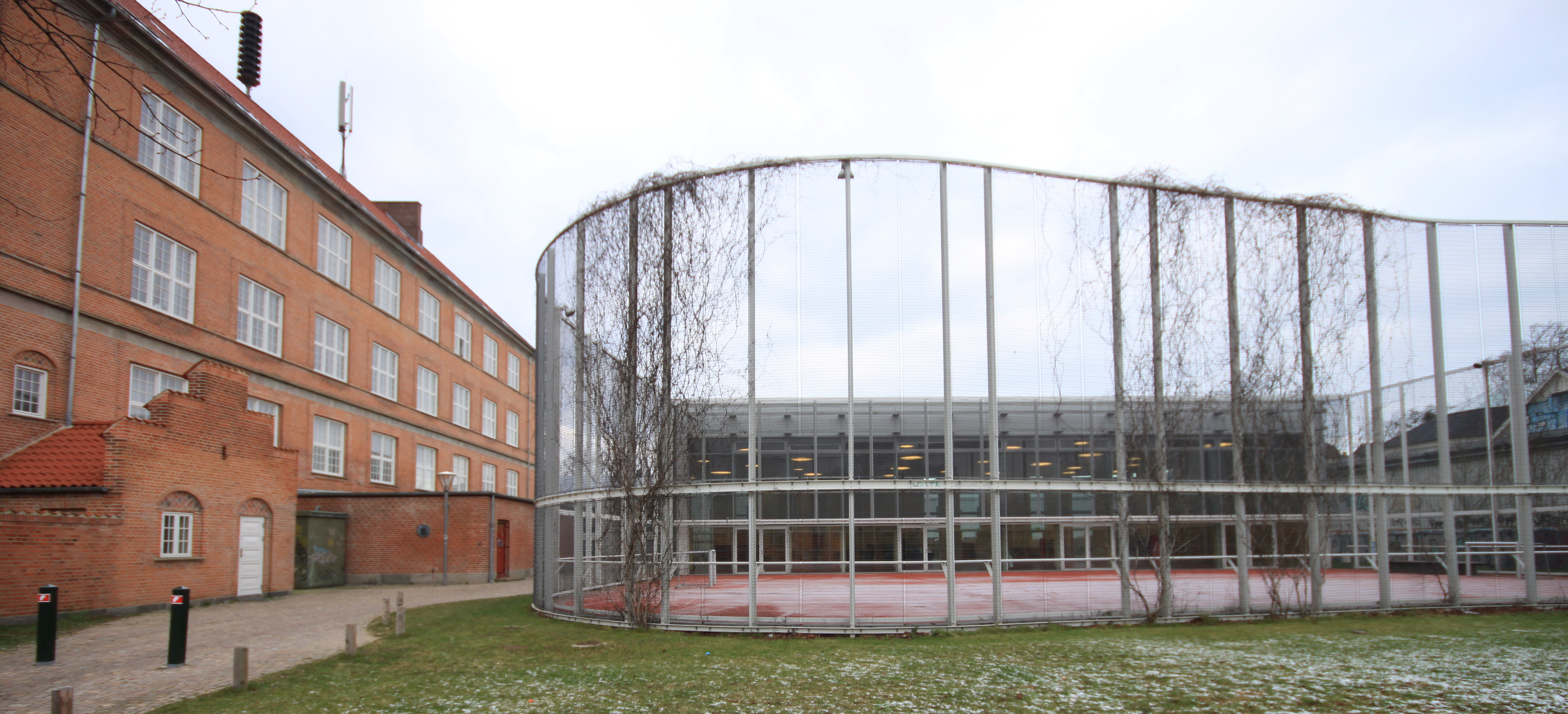 Nyboder Skole, a public school in Copenhagen)